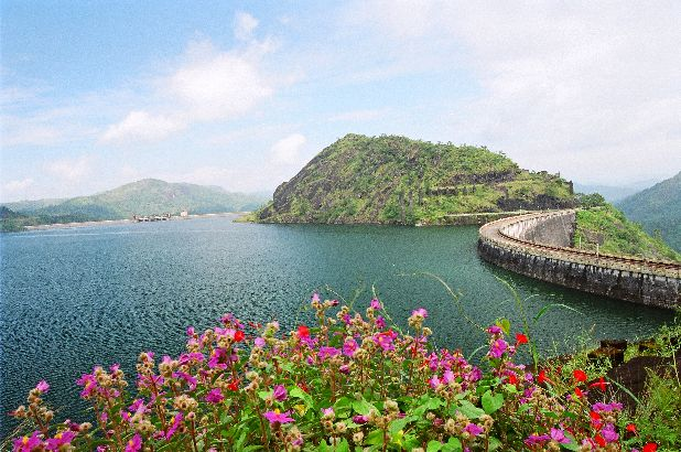 Idukki reservoir, Idukki dam and Cheruthoni dam are visible.